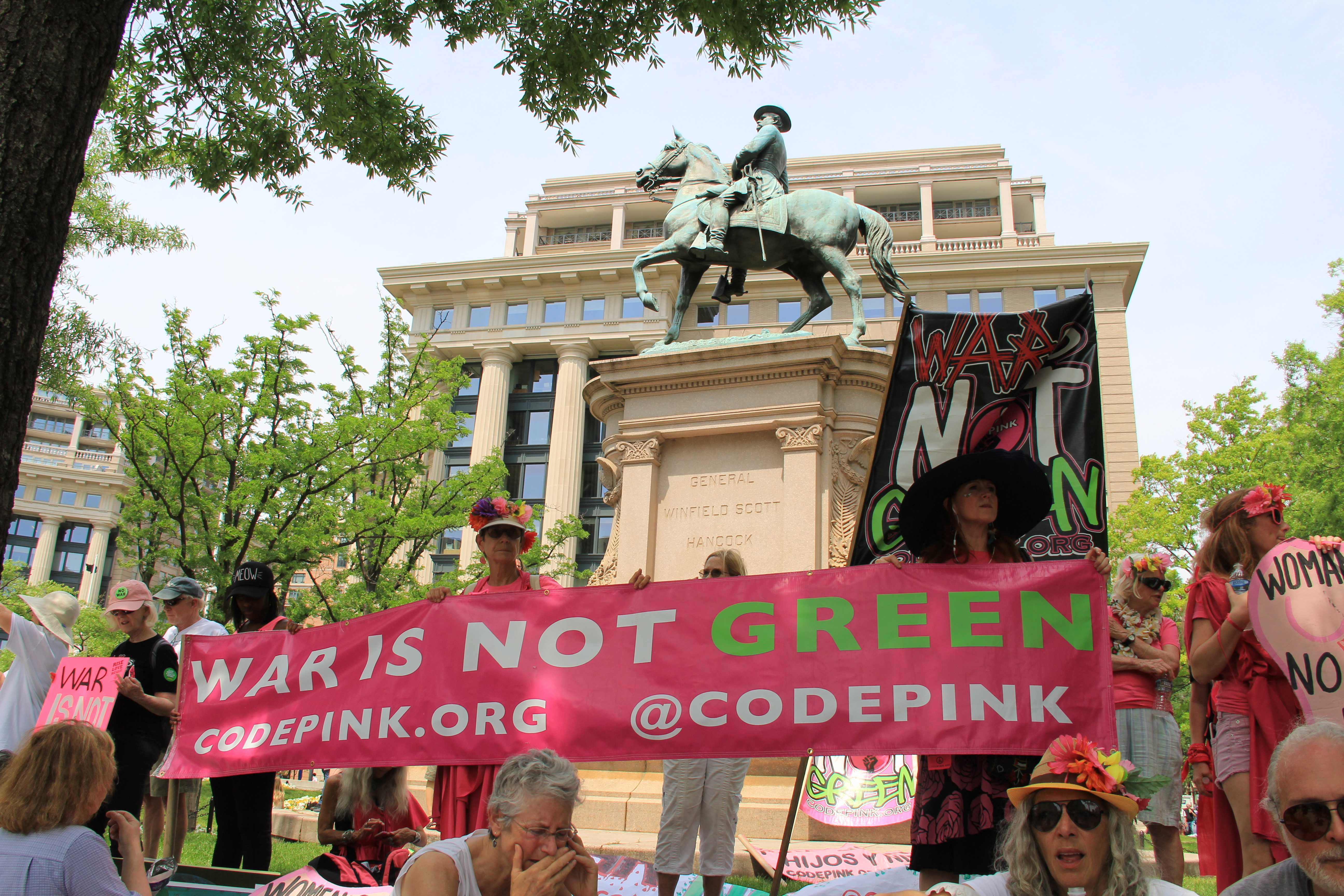 People's Climate March 2017 in Washington DC. Code Pink supporters with banner, "War is not green," under statue of a General Winfield Scott Hancock on horseback.